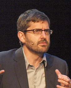 Louis Theroux. Foto: Gaute Singstad.